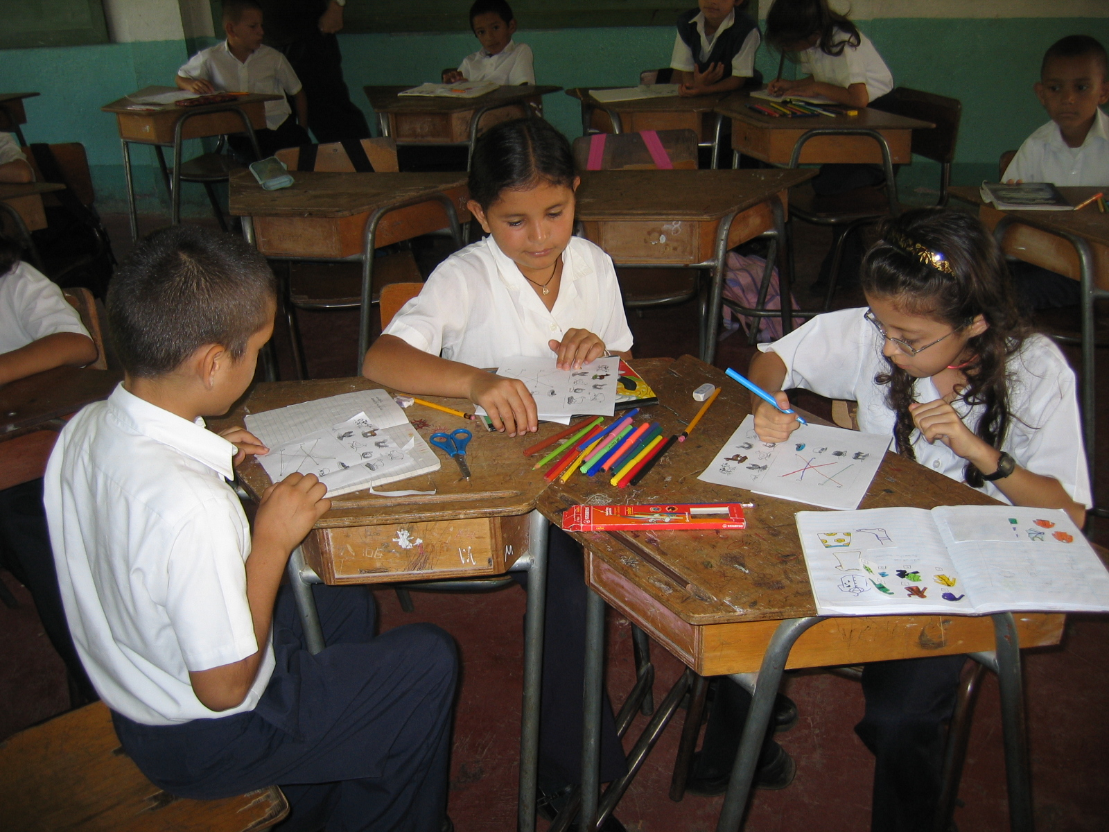 Second graders working in Centro Educativo Linda Vista de Santa Rosa, Guanacaste.